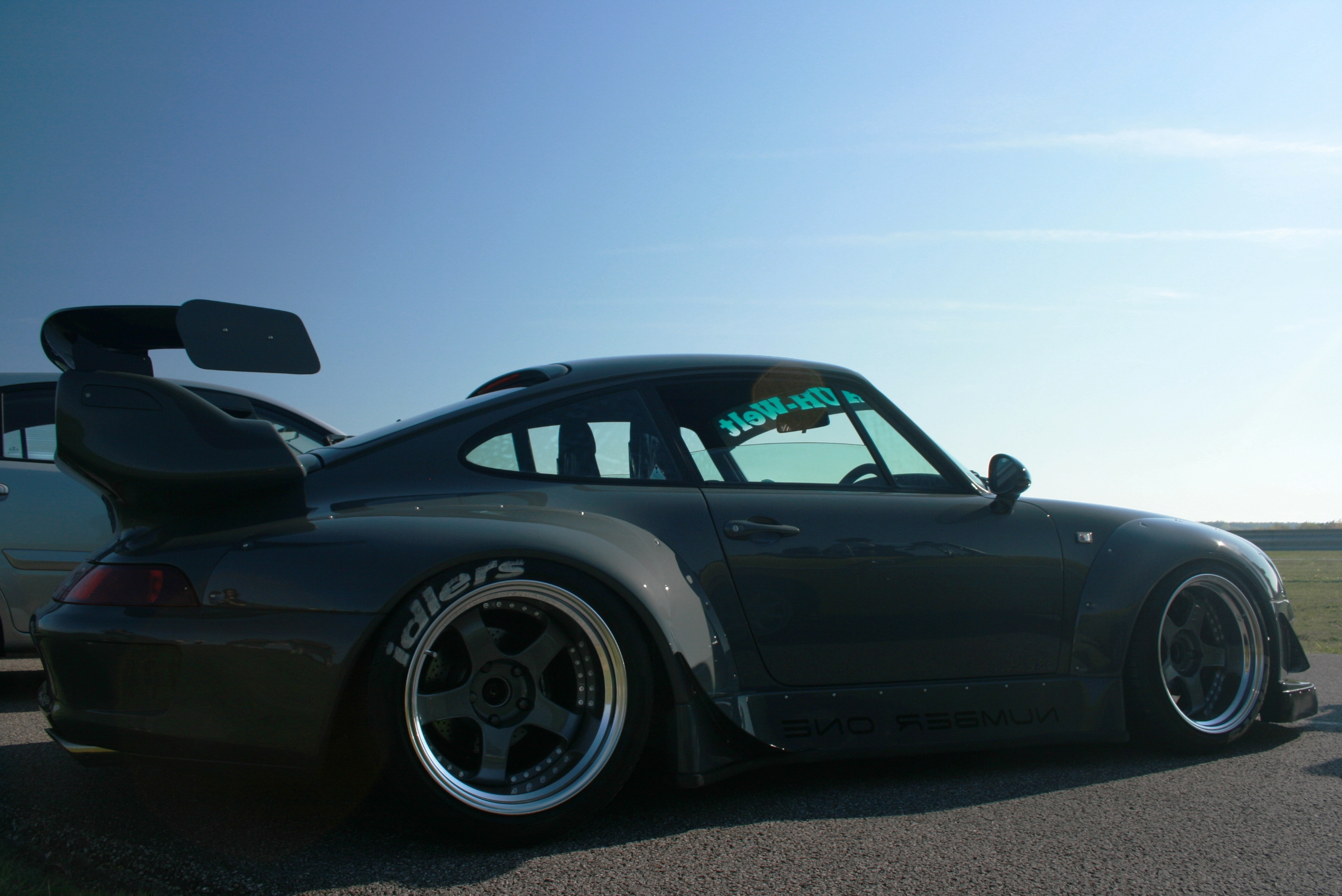 Stunningly mad be-winged "RWB - RAUH-Welt Begriff" Number One, based on a Porsche 993 Carrera.